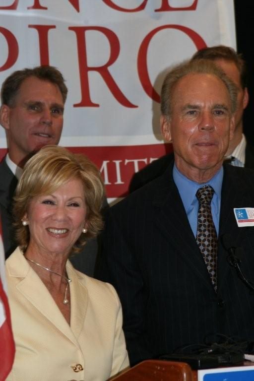 Taken at US Senate Exploratory Committee kickoff